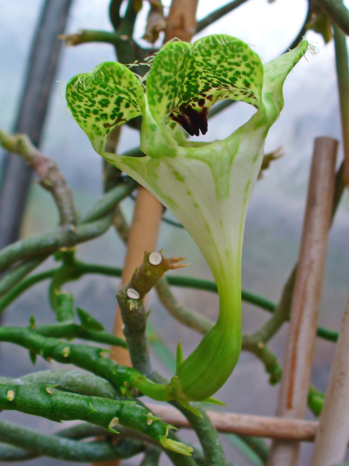 Ceropegia sandersonii, Apocyanaceae, Fountain Flower, Parachute Plant, flower; Botanical Garden KIT, Karlsruhe, Germany.